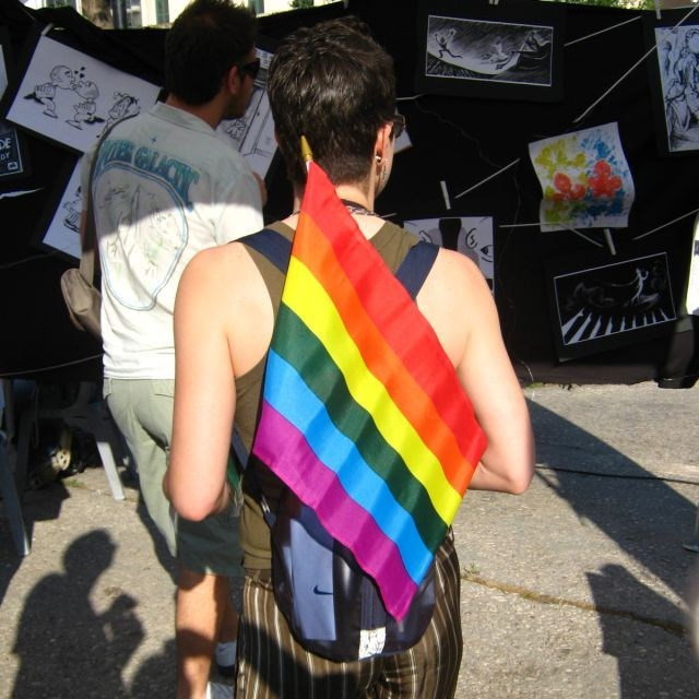 LGBT pride at Athens, Greece, 2008